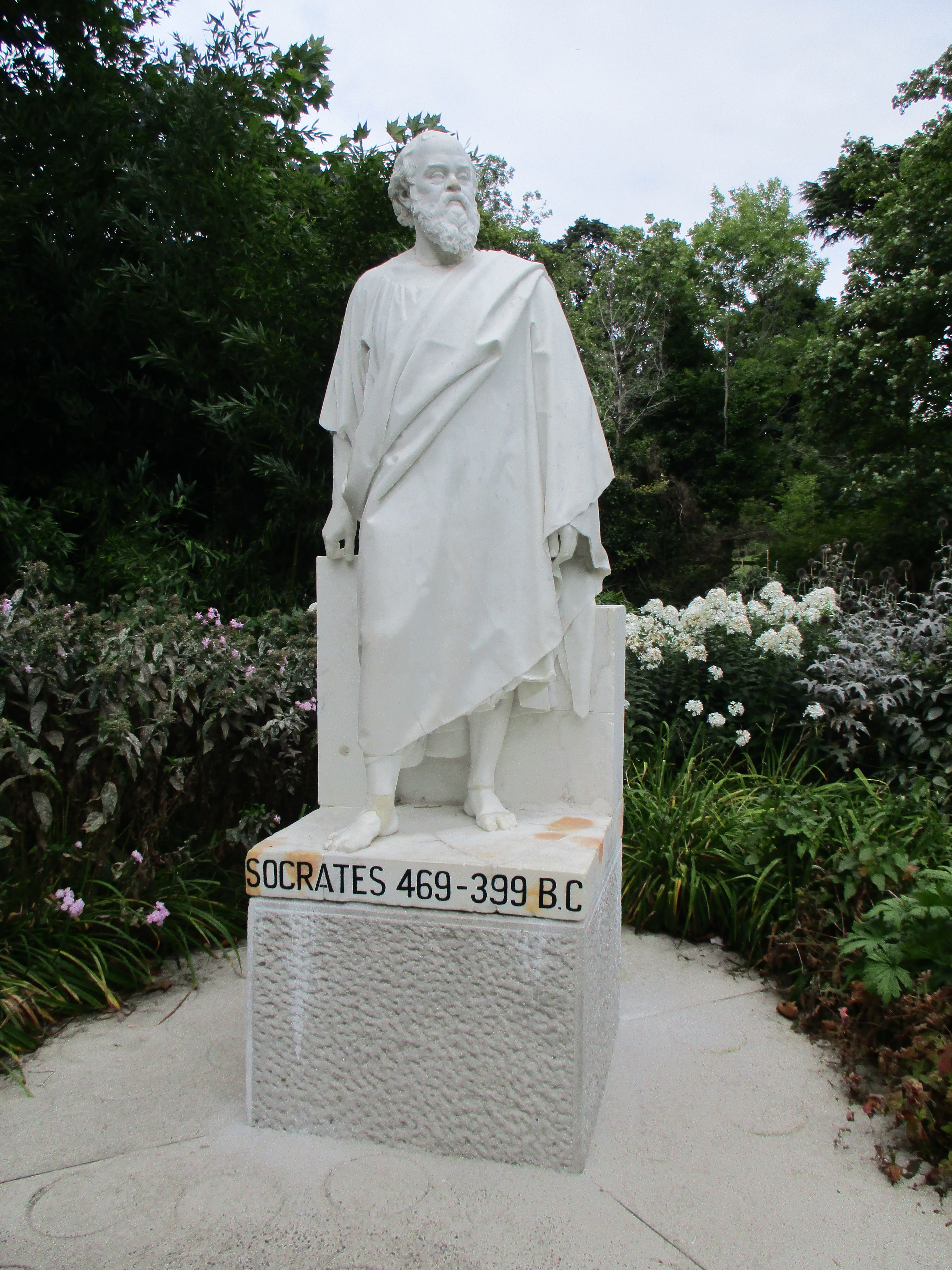 Statue of Socrates in Irish National Botanic Gardens, Glasnevin, Dublin